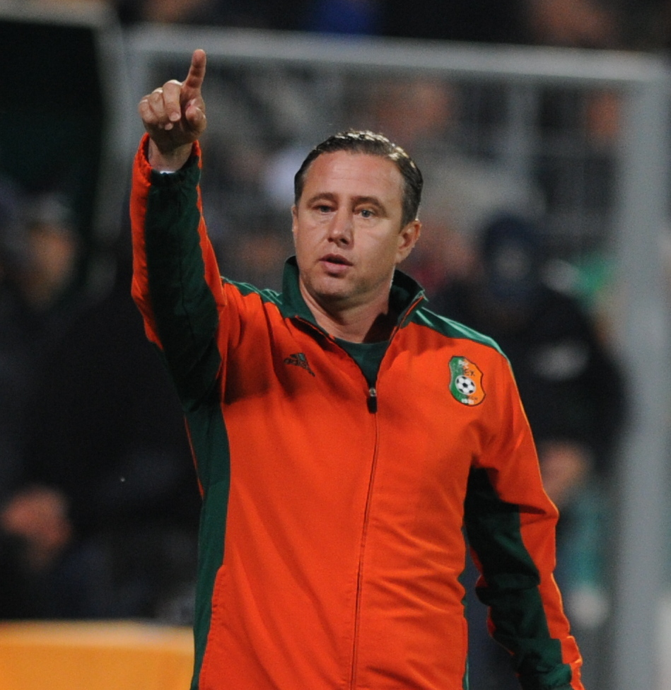 Laurențiu Reghecampf